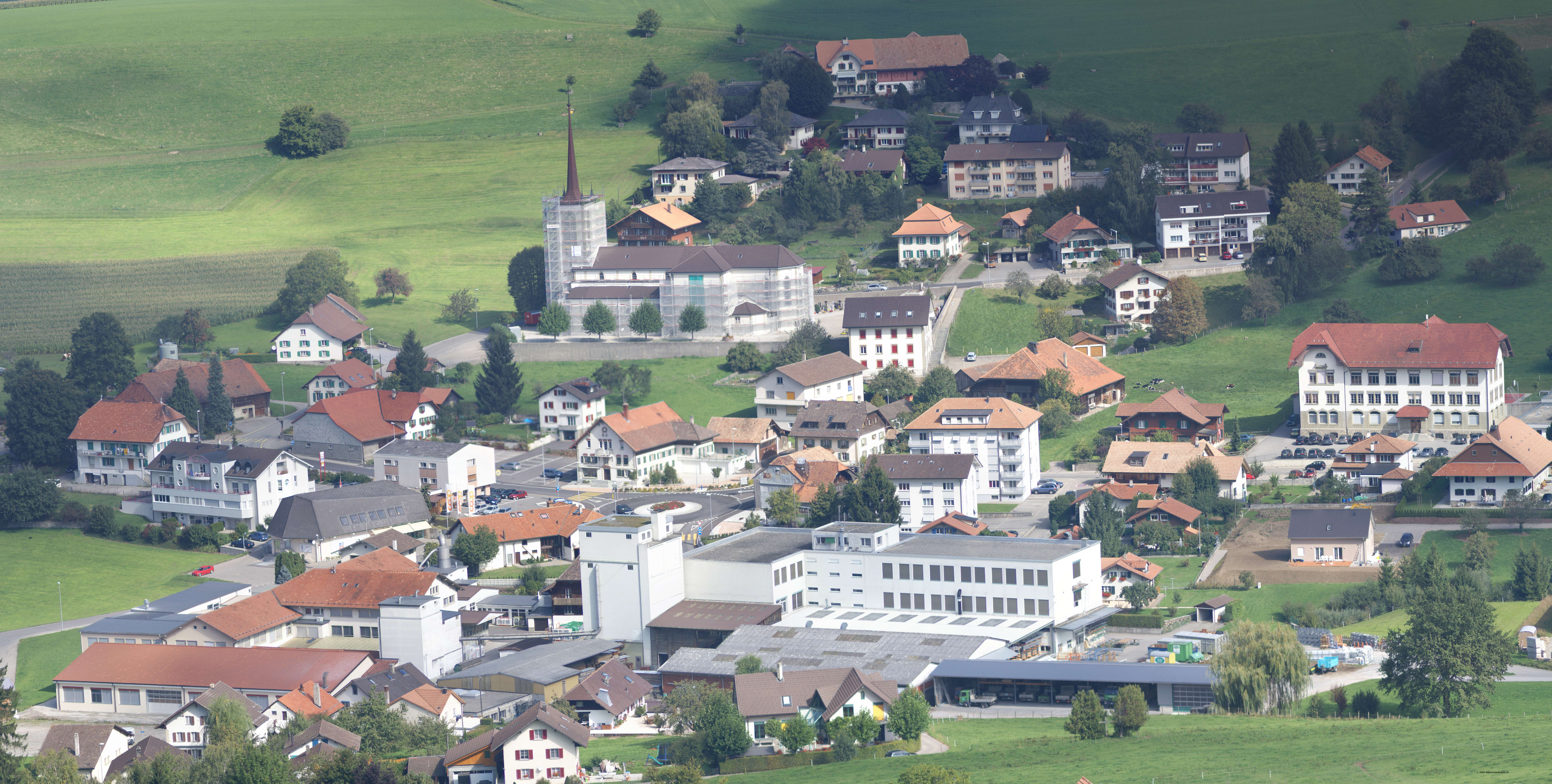 Image to the center village of Treyvaux in high resolution